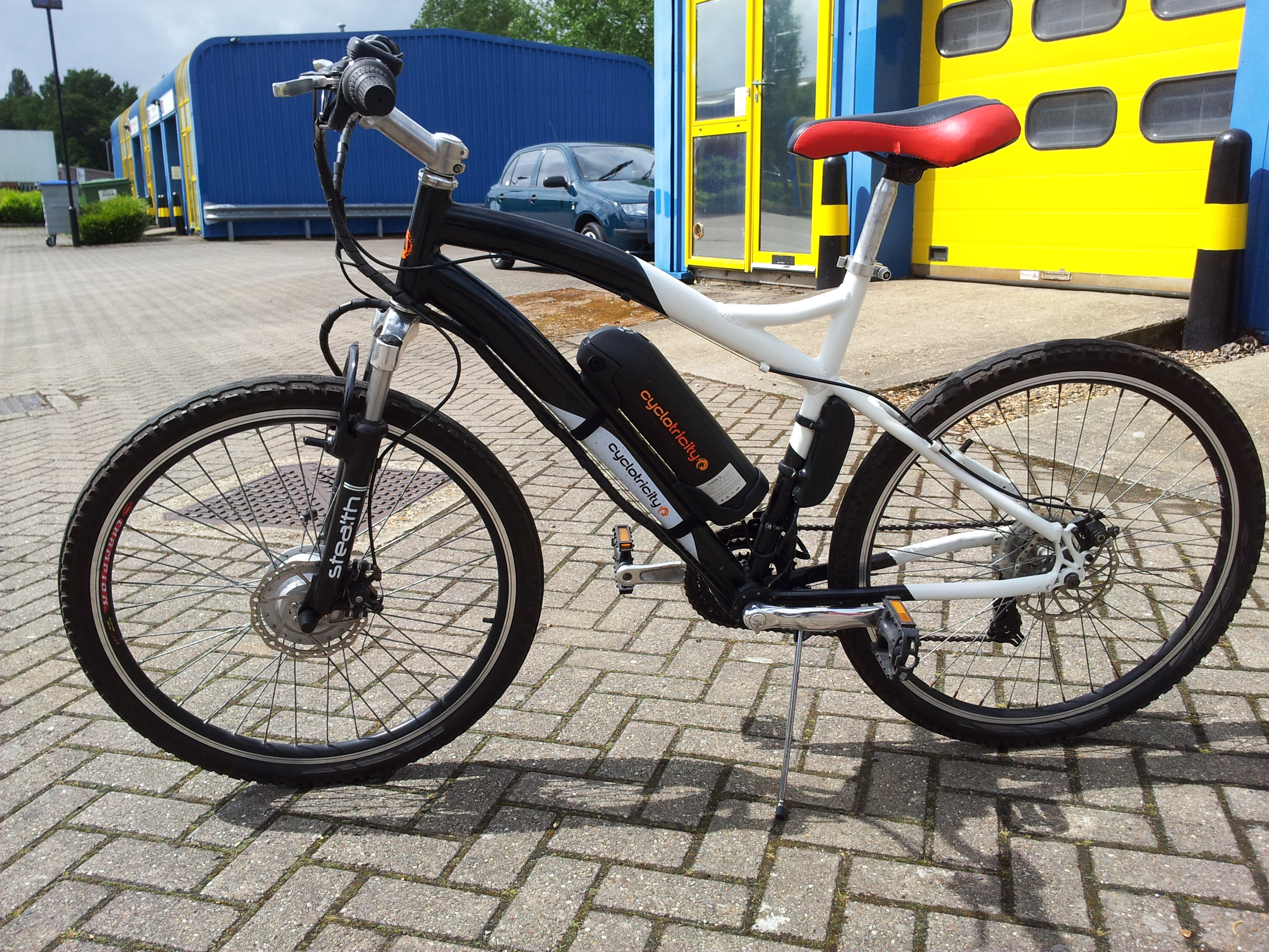 A well disguised e-bike, comes with a bottle shaped battery